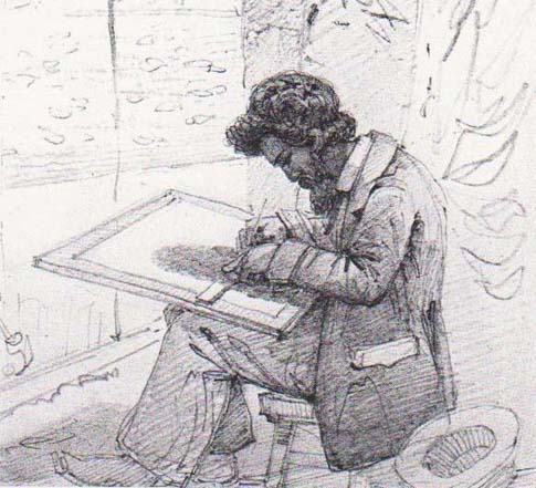 S. C. Malan. Mr. Layard at Kooyoonjik. Pencil